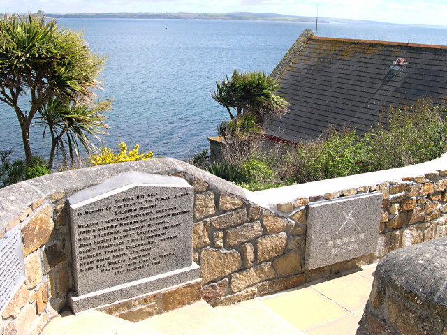 Memorial plaques at Penlee, Cornwall, by the entrance to the now disused lifeboat station. They commemorate the men wh were killed when the lifeboat Solomon Browne was lost in 1981